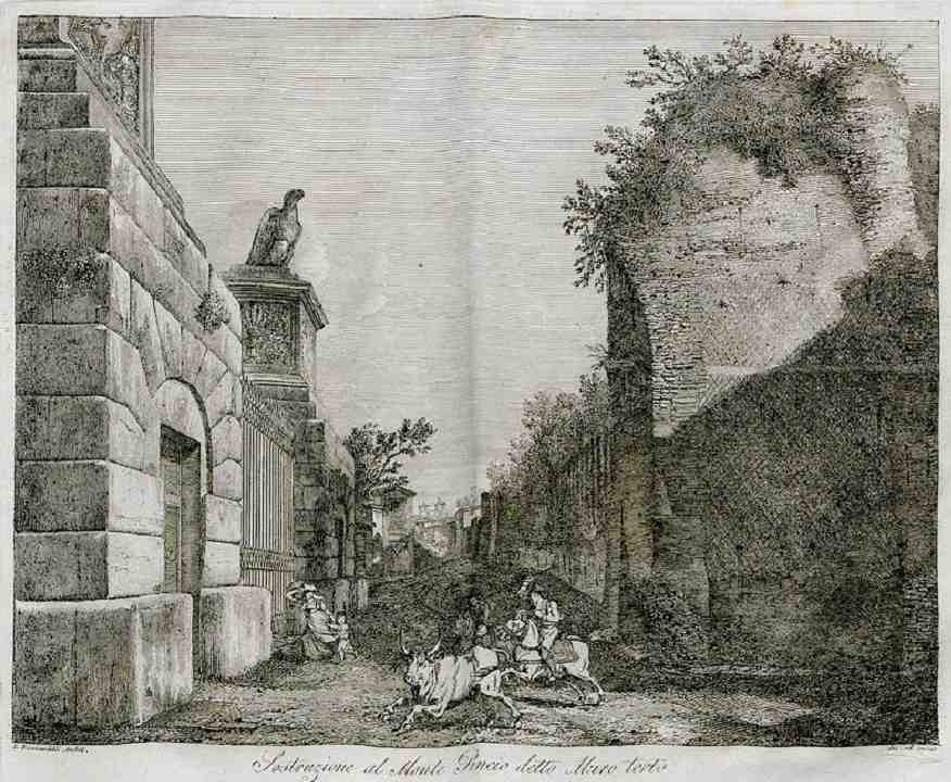 Vedute delle porte e mura di Roma, 1832